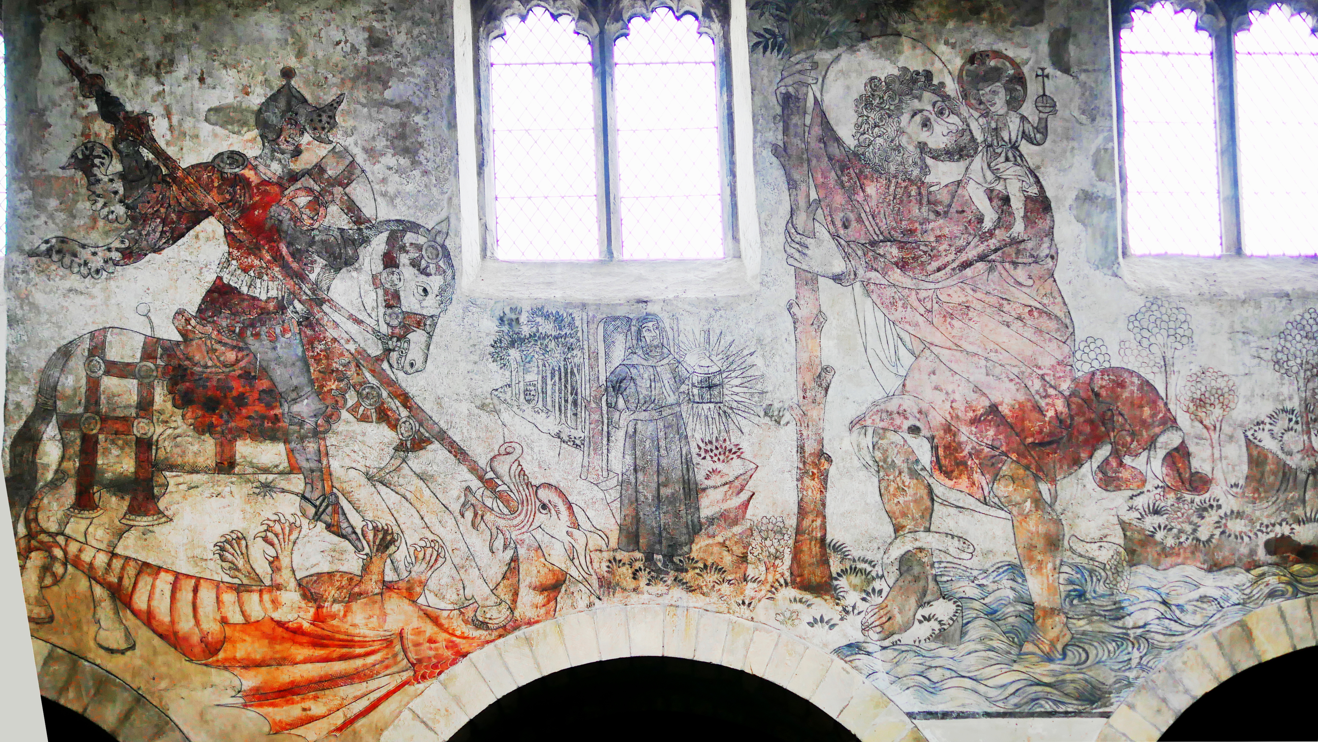 Frescos in Saints Peter and Paul Church (Pickering, North Yorkshire) - Fresco of Saint Christopher and Saint George and the dragon